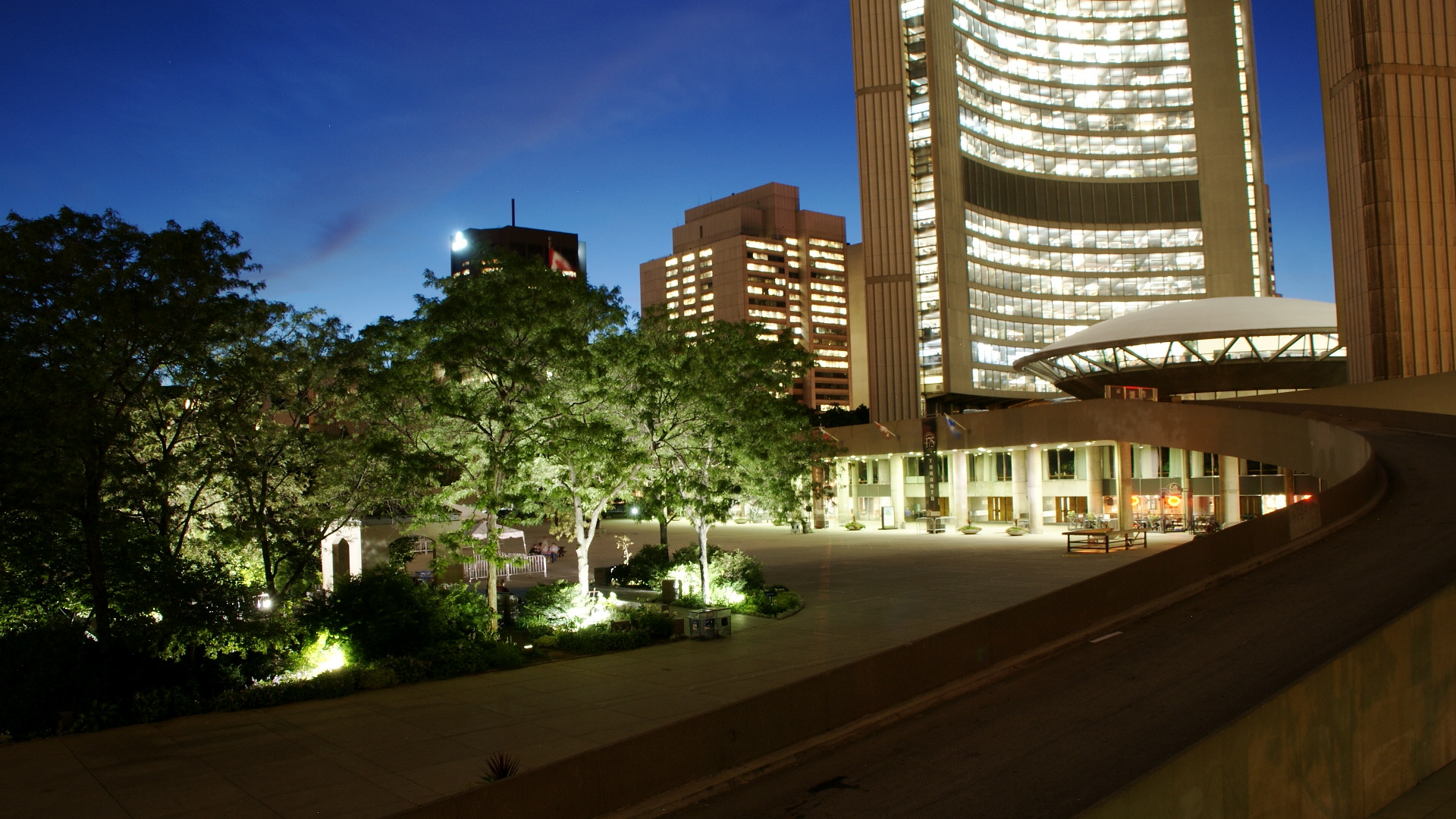 The Peace Garden lit at night in Nathan Phillips Square in front of Toronto City Hall.